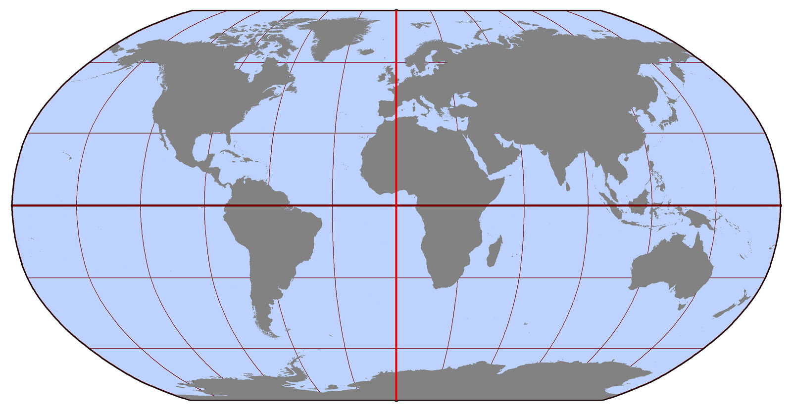 Location of Prime Meridian. Robinson map projection This version has no labels, so that could be used in many languages.